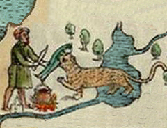 Cropped and retouched extract of Carta Marina by Olaus Magnus dated 1539 showing an otter retrieving a fish for its master.